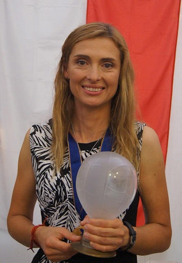 Beata Choma, Polish balloonist, European Champion (women) 2017